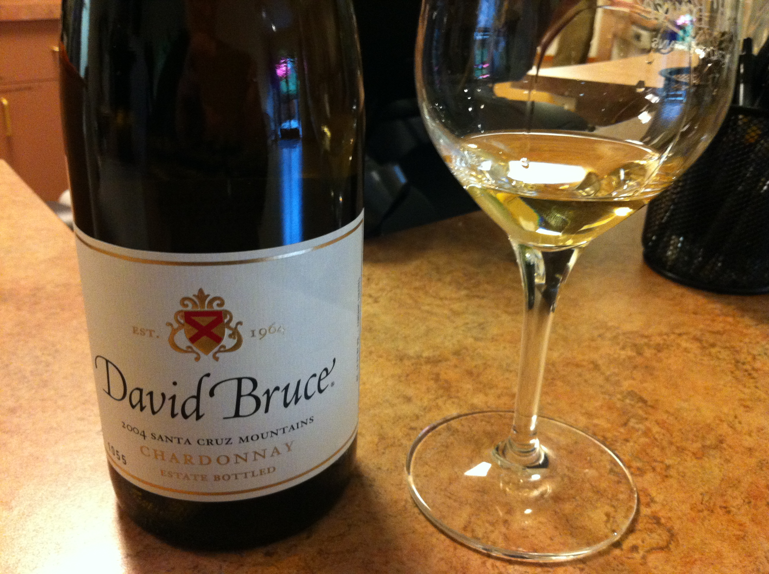 Chardonnay from the California wine producer David Bruce